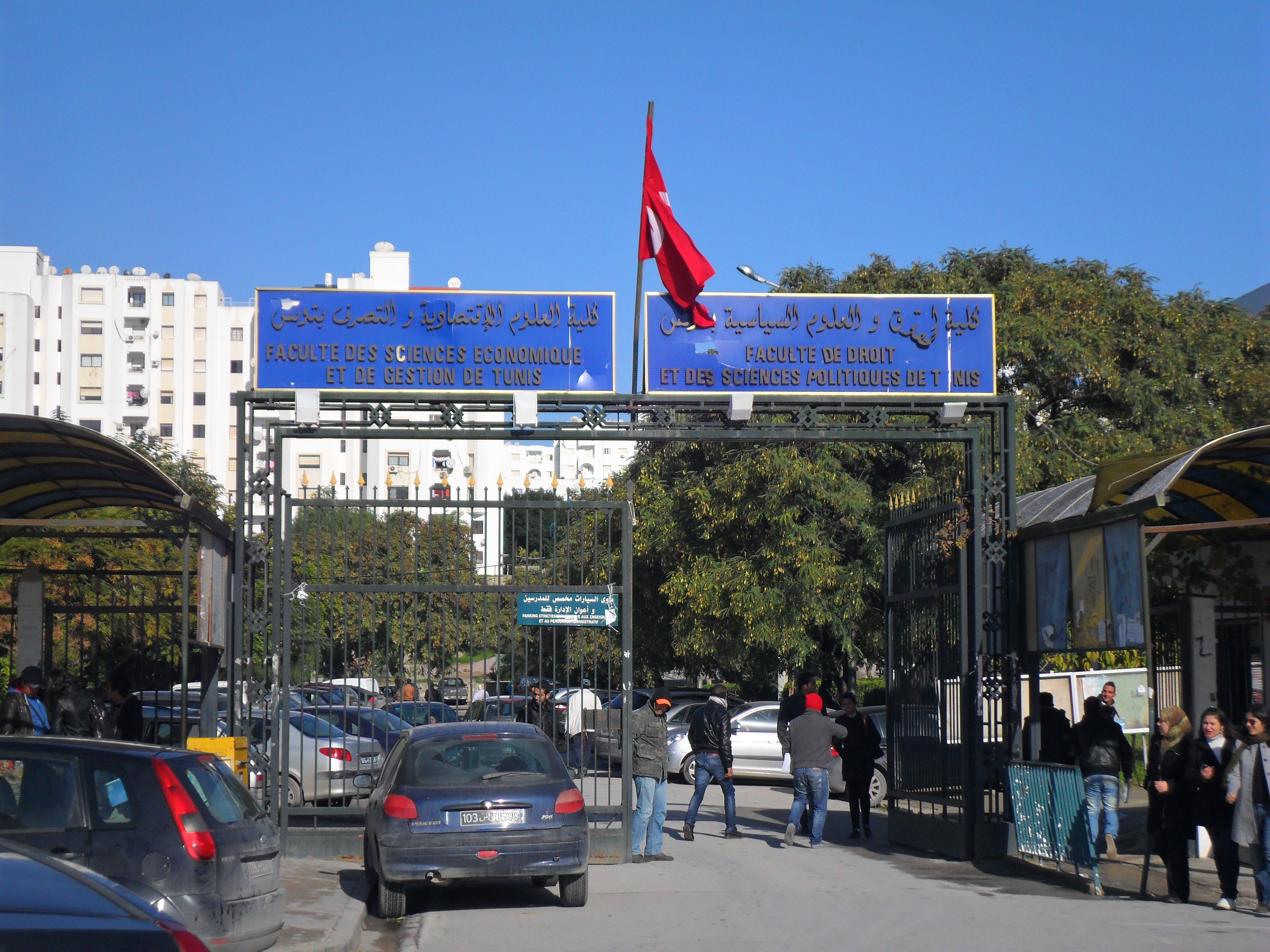 Entry of Faculty of Economic Sciences and Management of Tunis